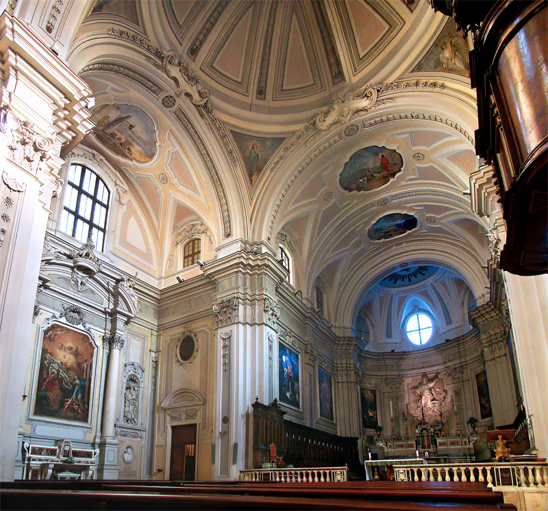 Cathedral of Santa Maria Assunta, Molfetta, Apulia, Italy.